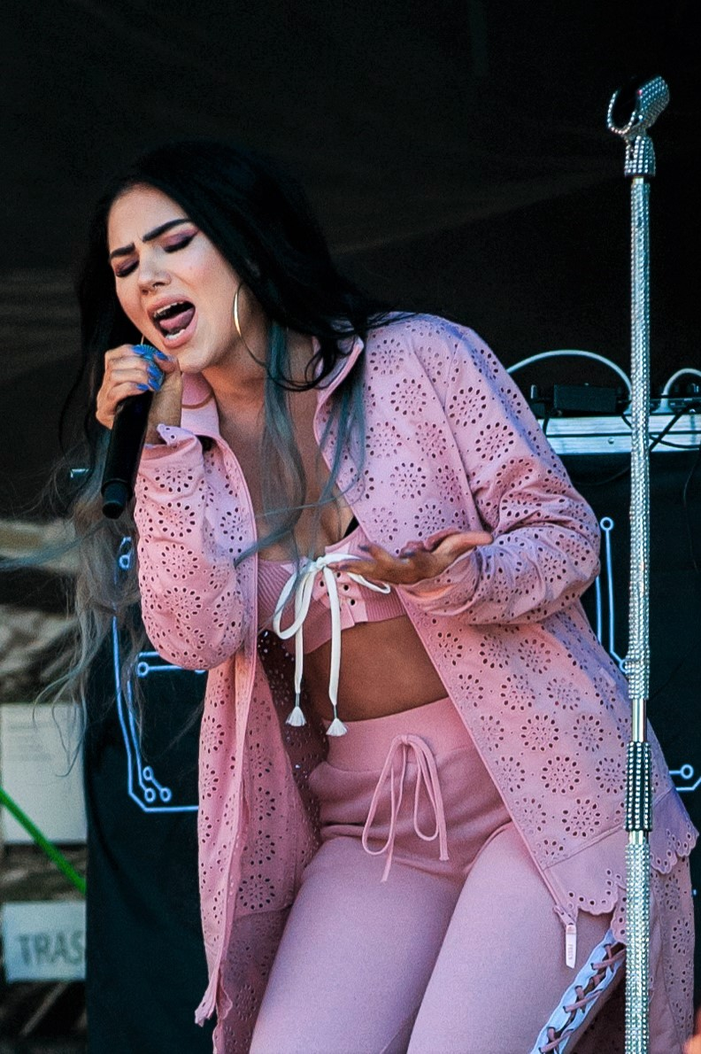 Finnish singer Evelina performing at the Ilosaarirock festival in Joensuu, Finland.